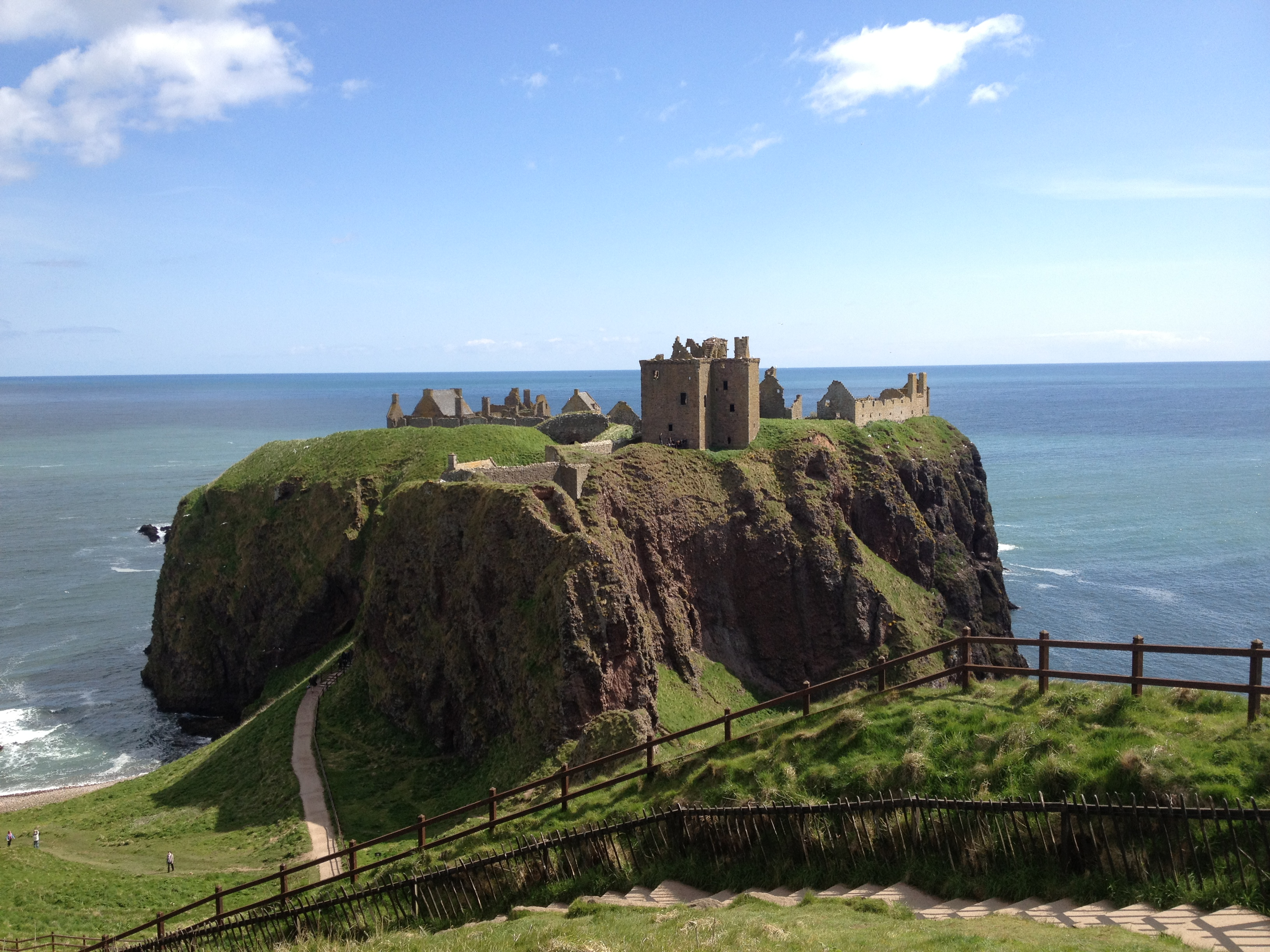 Dunnottar castle